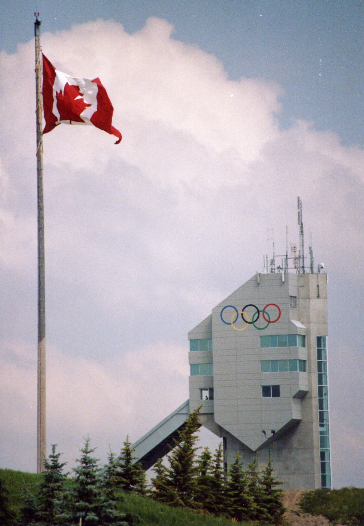 The top structure of the 90m ski jump at Canada Olympic Park in Calgary, Alberta.